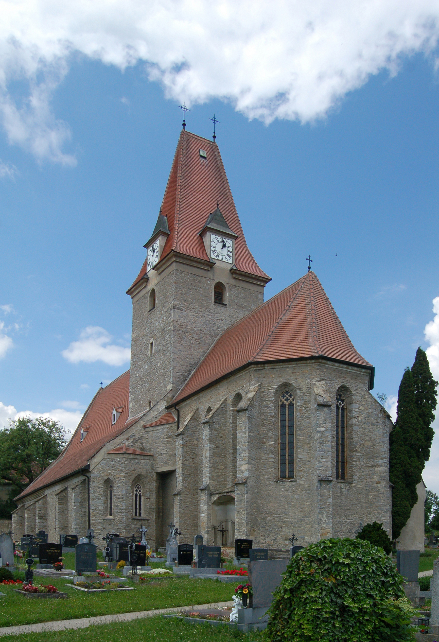 Parish church Mariae Himmelfahrt (assumption) in Altpölla, municipality of Pölla, Lower Austria, is protected as a cultural heritage monument.